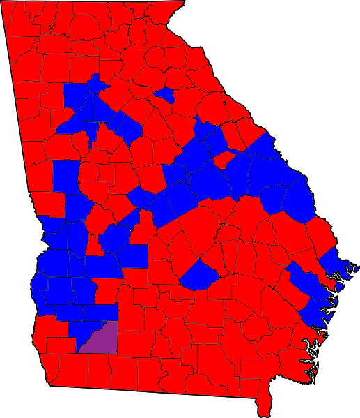 Results of the Georgia senatorial election, 2008 by county. Red indicates counties that voted for Chambliss, blue for Martin, purple for Mitchell County which had a tie.